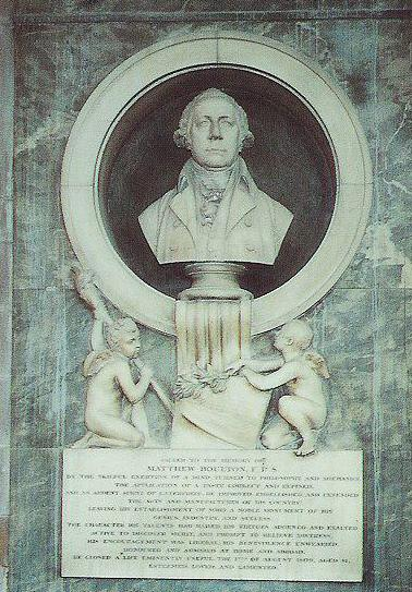 Bust of Matthew Boulton inside St.Mary's Church, Handsworth, Birmingham Sibadd 19:54, 30 May 2006 (UTC)